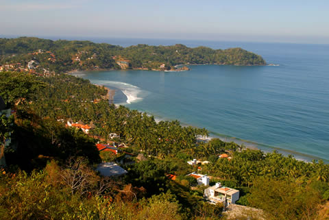 Sayulita off the west coat of Mexico, a fishing village now much given over to tourism.